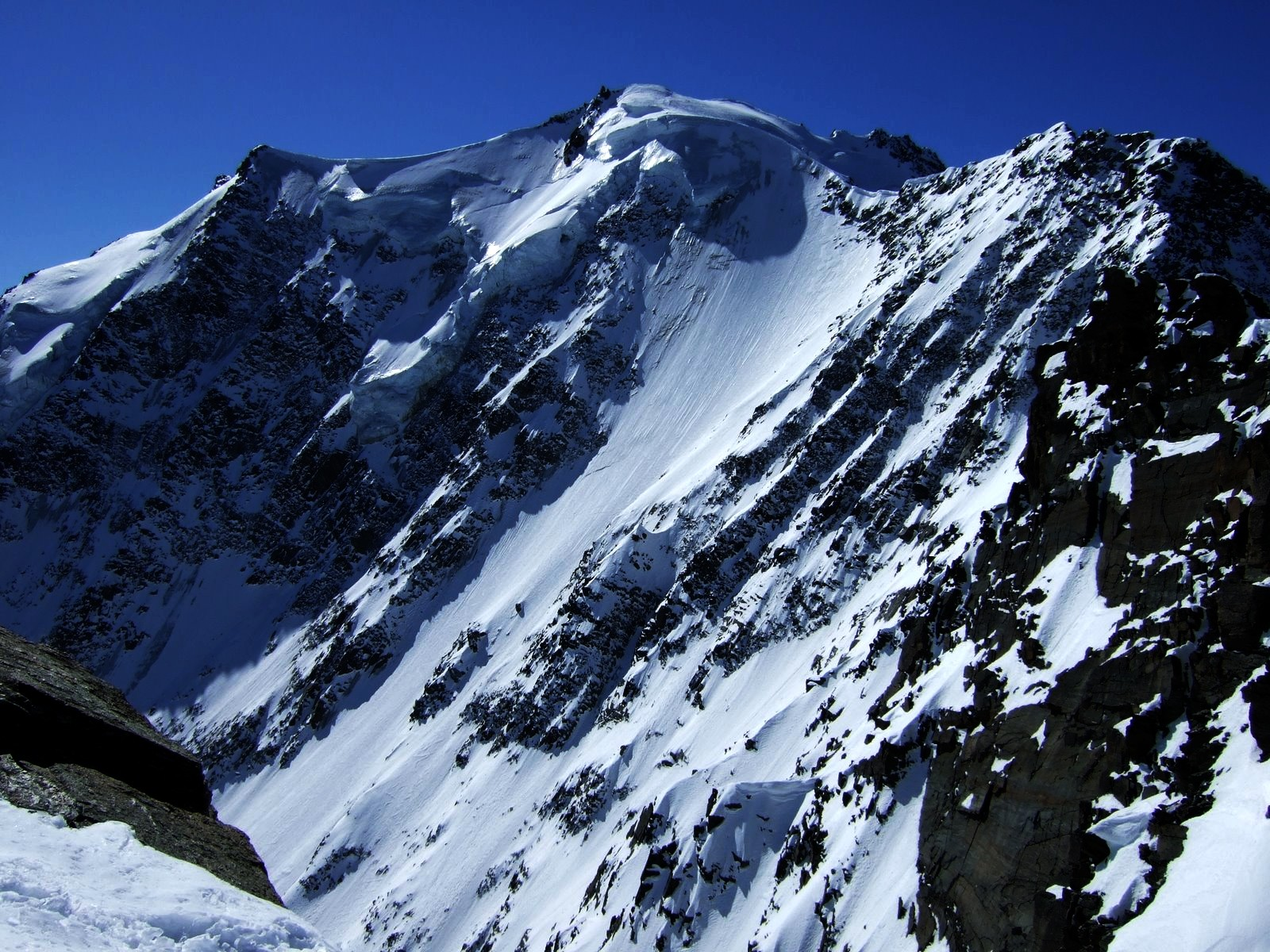 Fletschhorn from Senggchuppa (north)